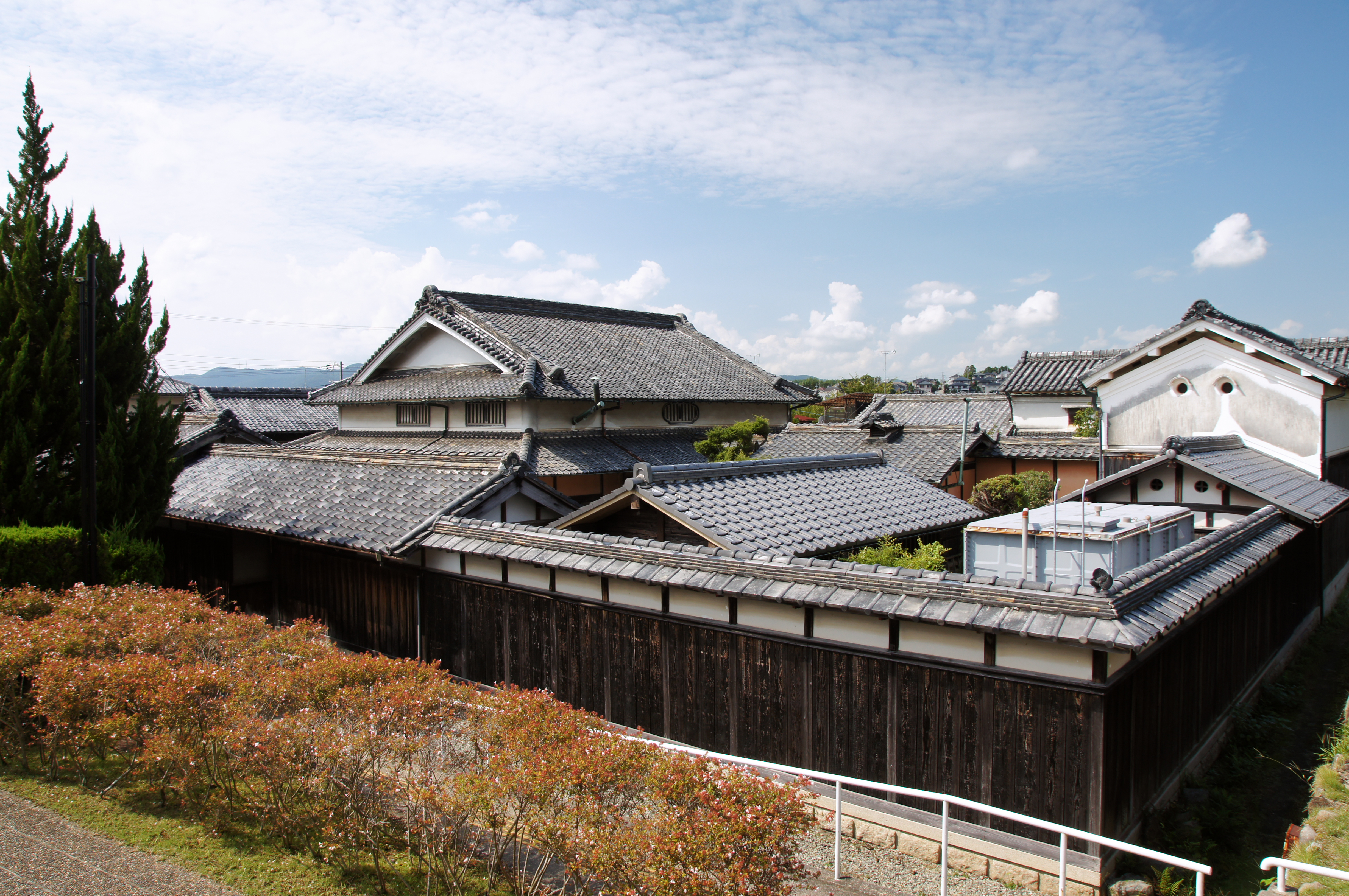 Kyodokan Museum (Folk Museum of Kawanishi) in Kawanishi, Hyogo prefecture, Japan.